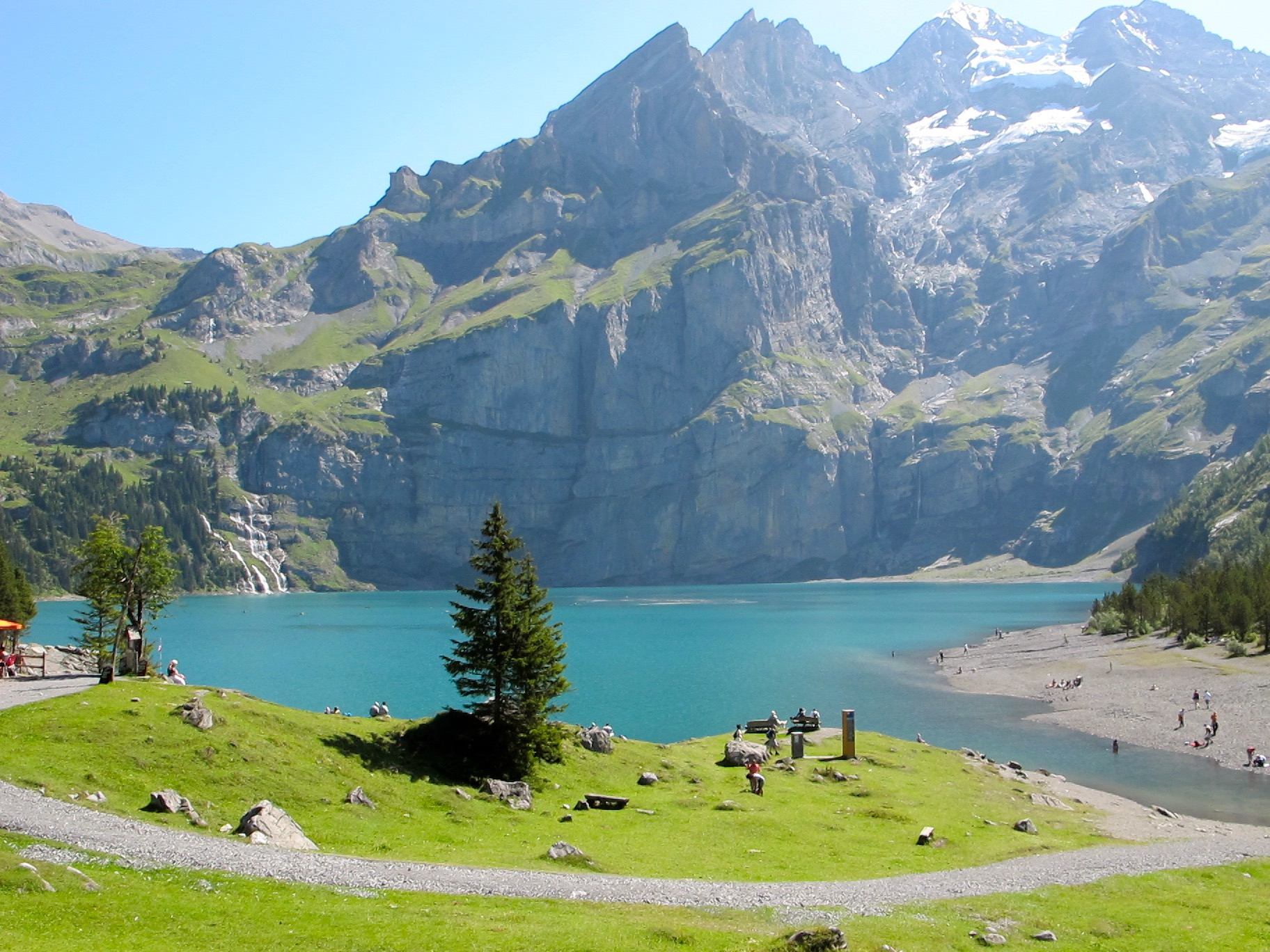 Oeschinensee